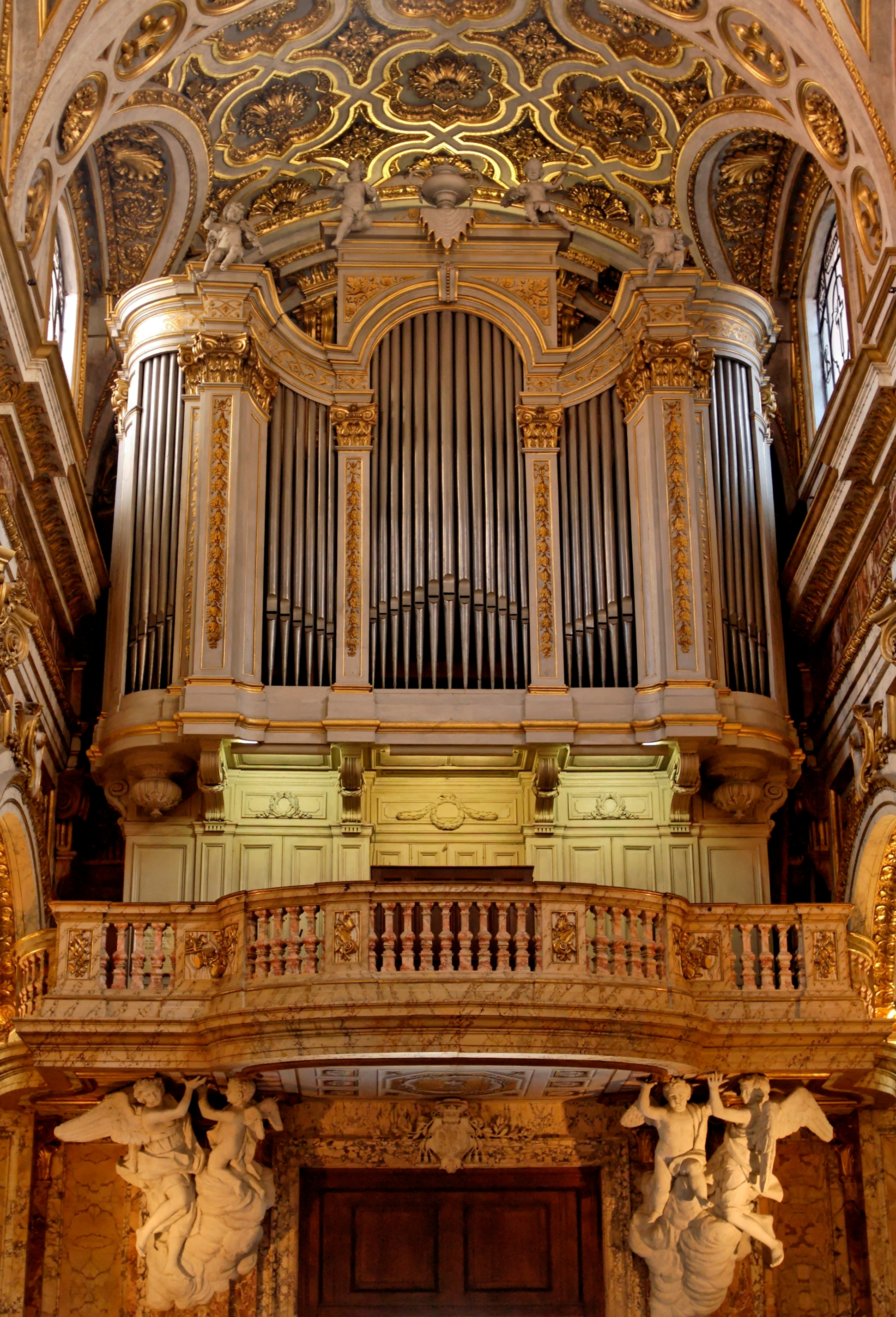 Great organ of the church San Luigi dei Francesi (late 16th century) in Rome.